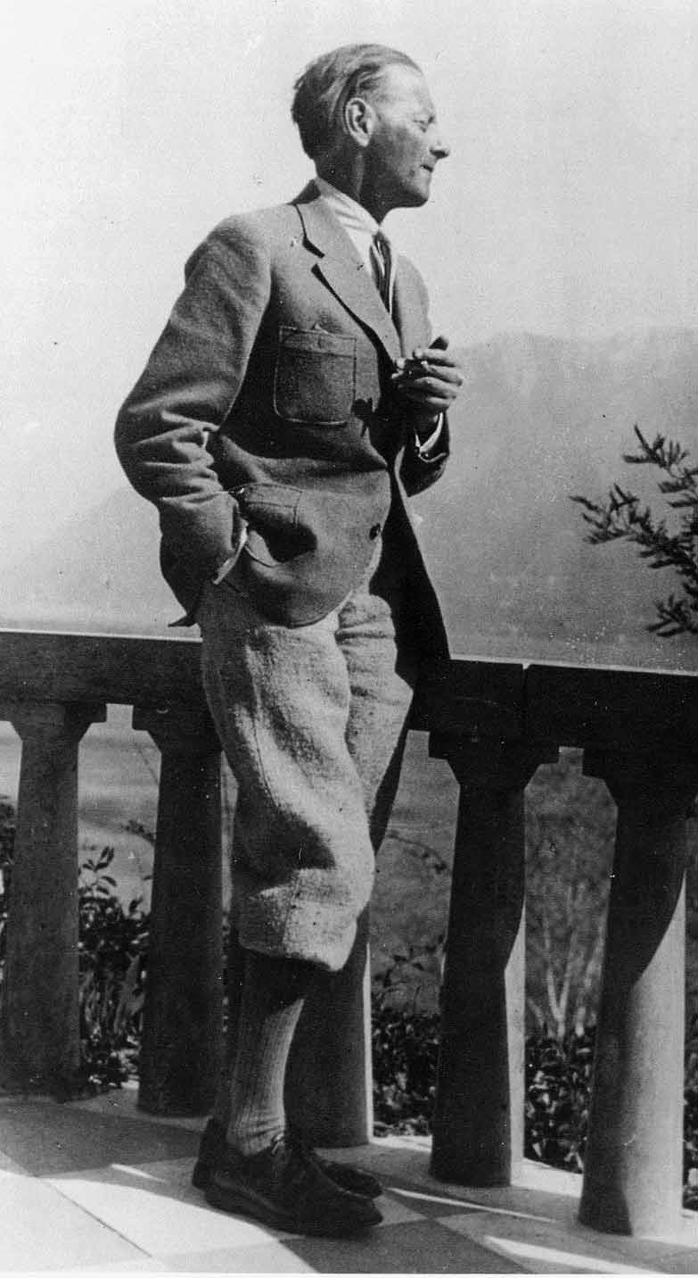 Rudolf Olden in Ascona. Somewhere in the 1920's. taken from Rudolf Olden. Journalist gegen Hitler – Anwalt der Republik